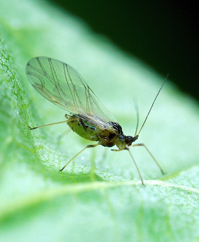 An alate (winged) green peach aphid (Myzus persicae), an important vector of plum pox virus.